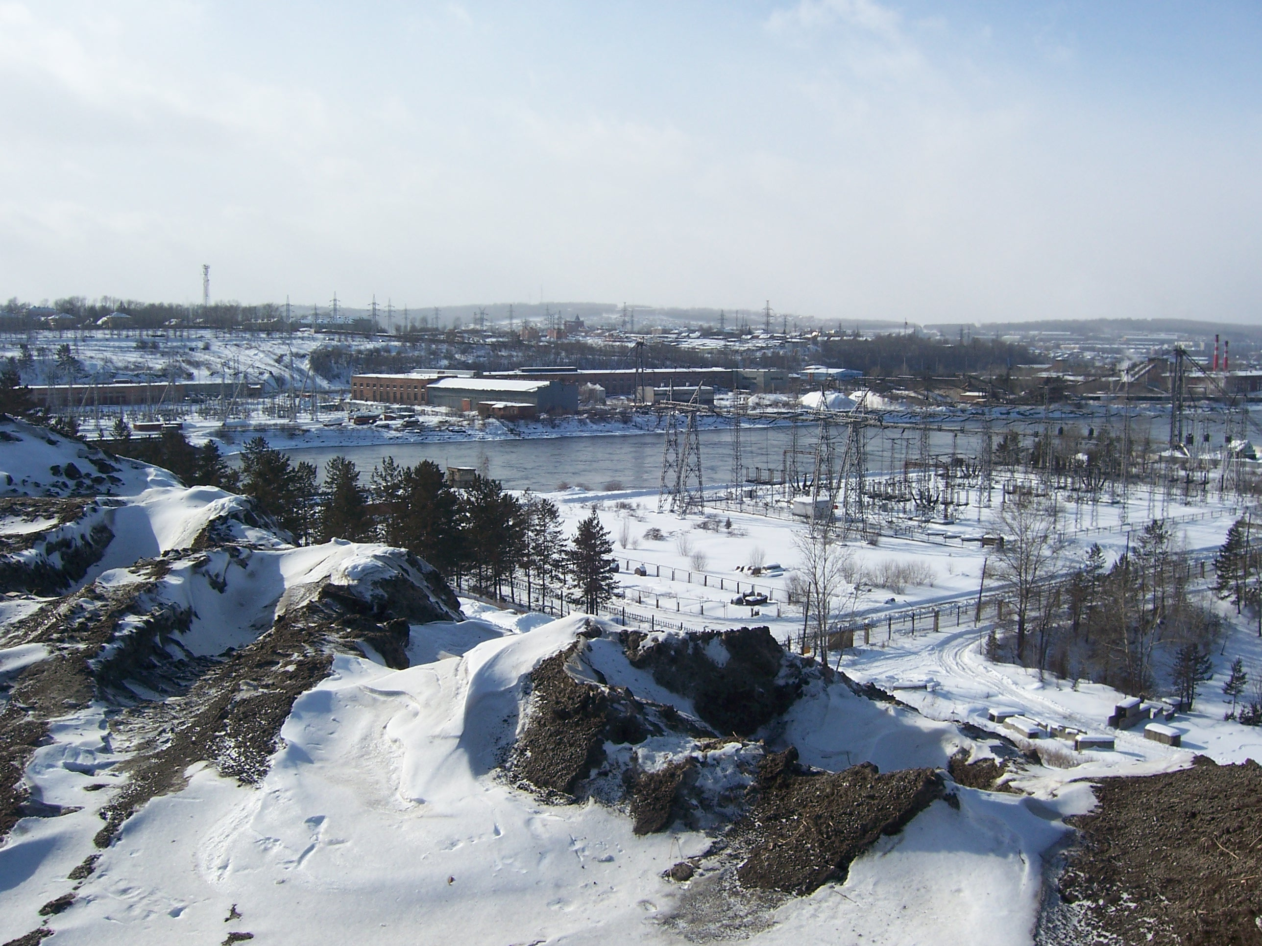 Irkutsk Hydroelectric Power Station